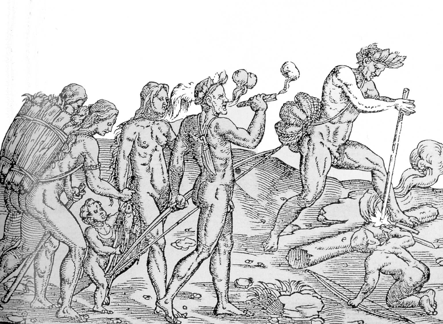 Indigenous peoples of Cuba (1558).